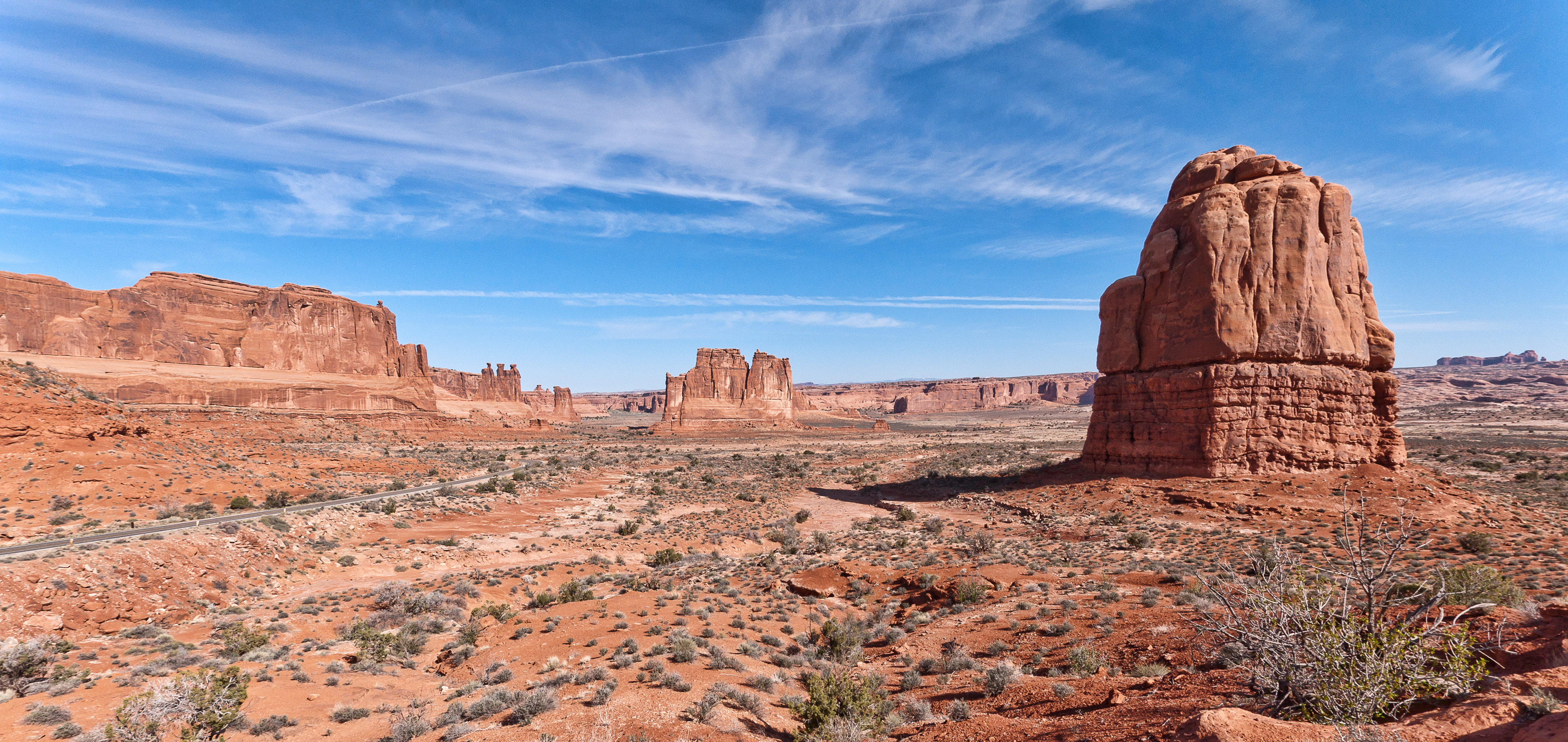 Arches National Park - Entrance features